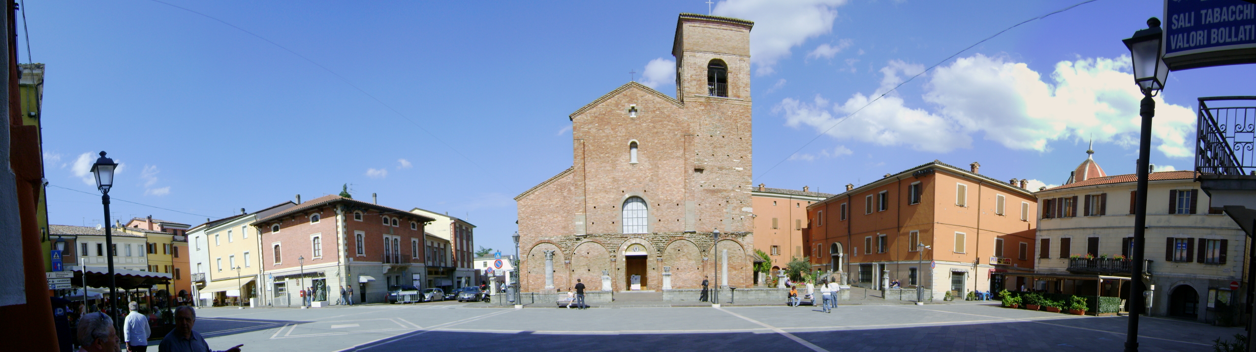 Plautus square, Sarsina, province of Forlì-Cesena, Emilia-Romagna